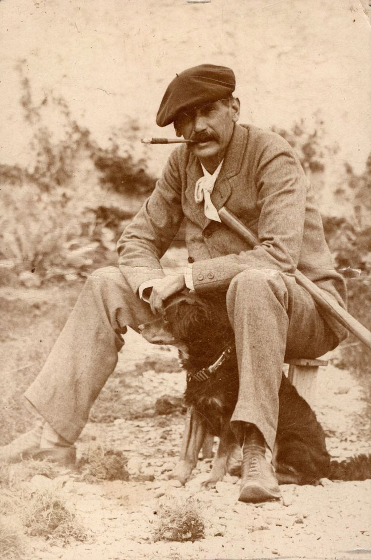 Benito Pérez Galdós and his dog in the familiar property of “Los Lírios” (Monte Lentiscal), during his visit to Gran Canaria in 1894. The photography belongs to the Family Perez-Galdós who exposes it in the House-Museum Perez Galdós (Las Palmas de Gran Canaria).